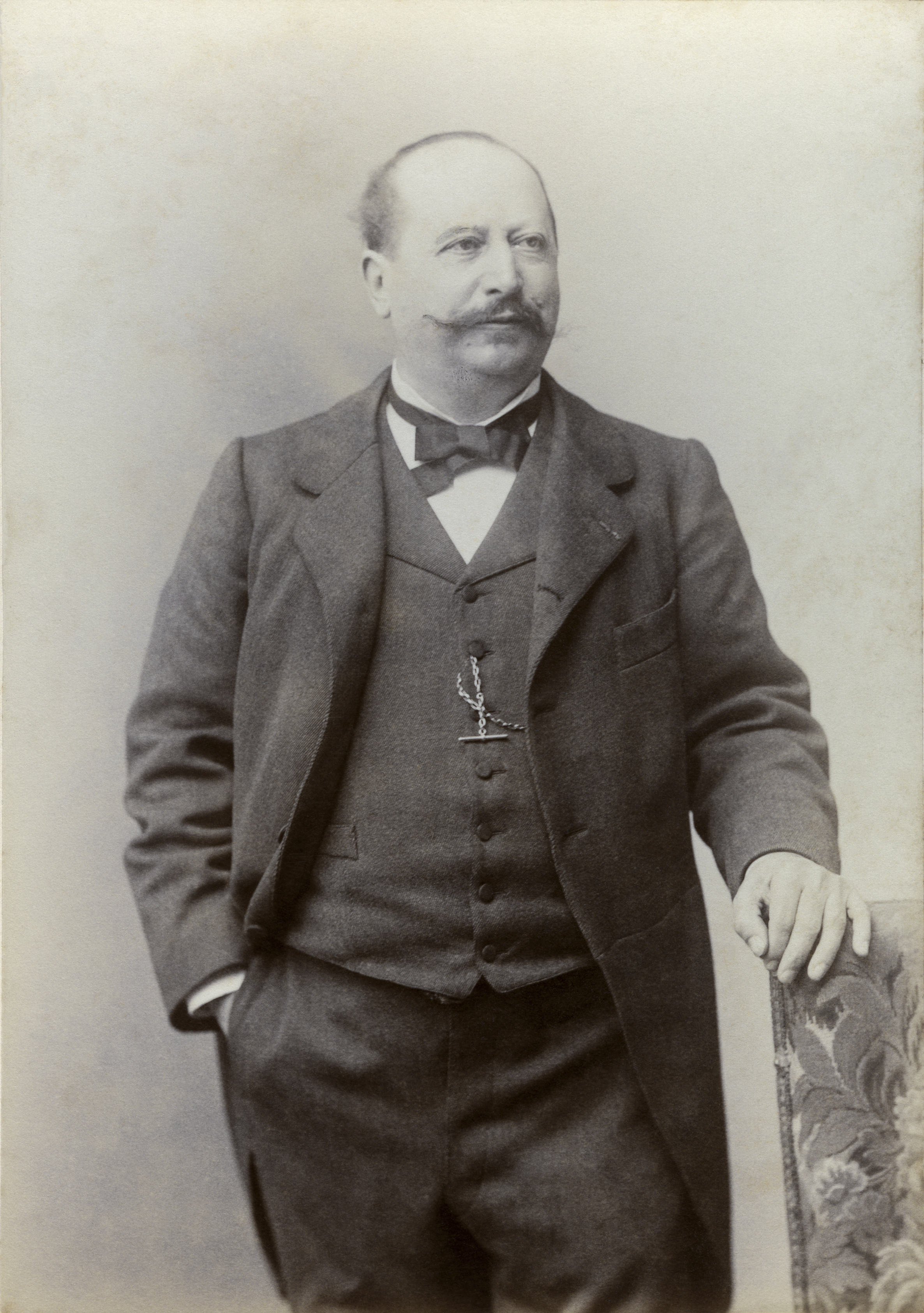 Henri Filhol – French prehistorian and paleontologist Source: Library and Documentation Service Museum of Toulouse